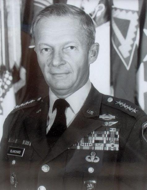 Official Army portrait photo of General George S. Blanchard, therefore in the public domain